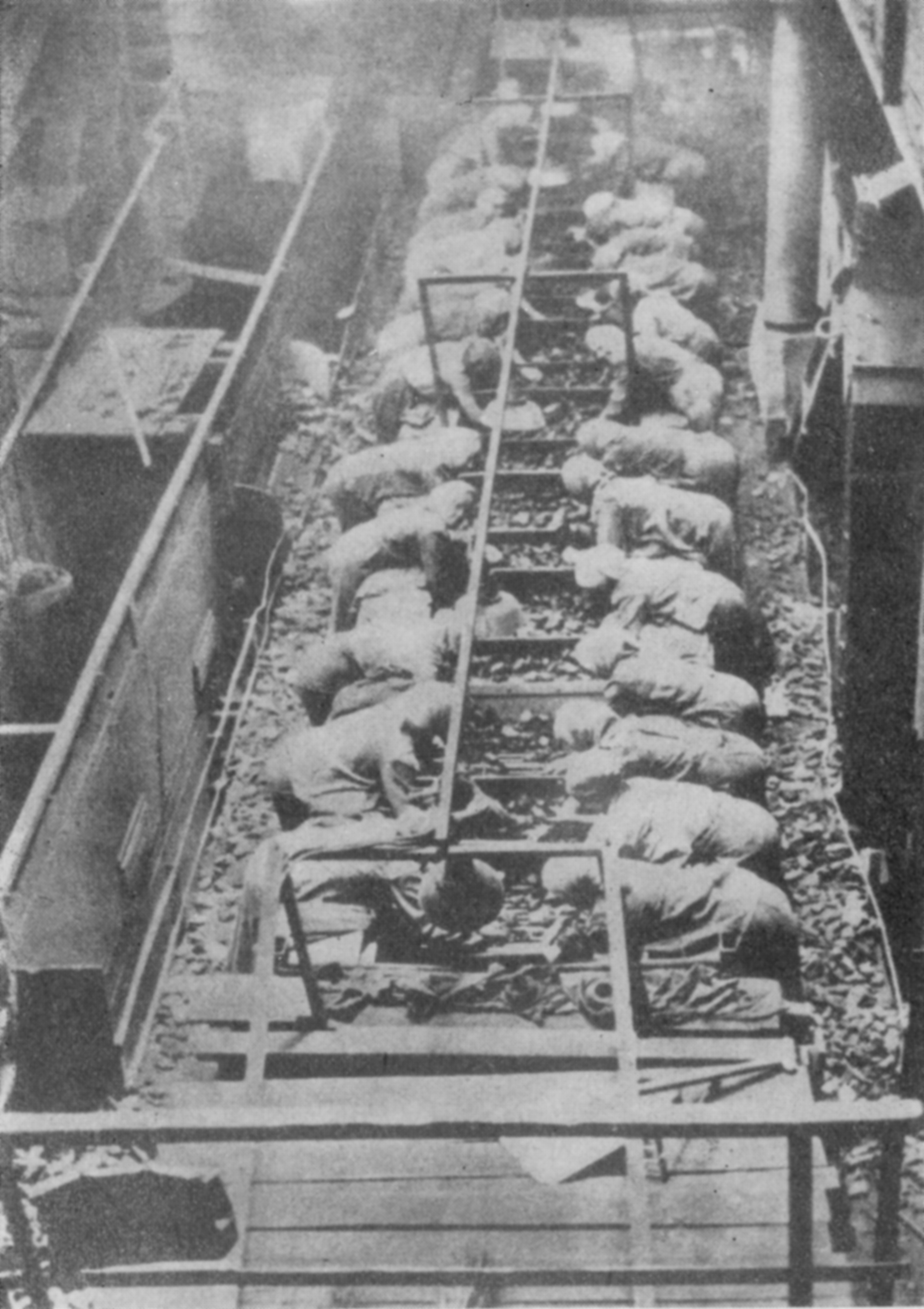 Hand sorting of coal by women in coal mine Brzeszcze in old coal breaker.